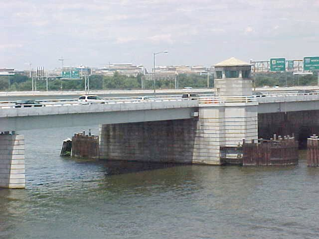 The bascule drawbridge section of the 14th Street Bridge complex as seen from the Yellow Line of the Washington Metro. The draw span no longer functions.